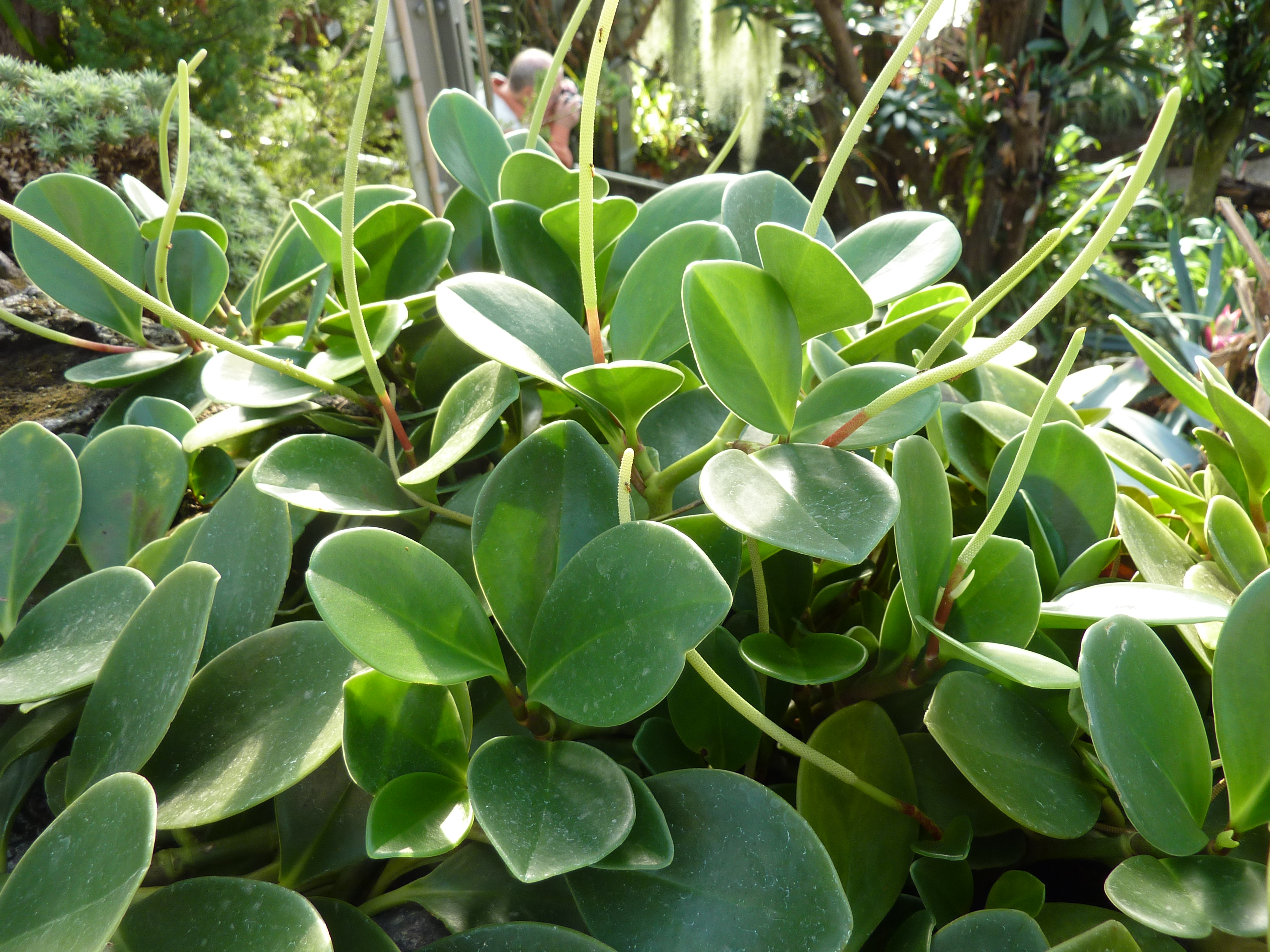 Peperomia magnoliifolia in the Botanical Garden, Berlin